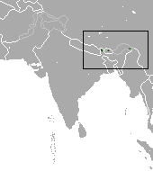 Giant Mole Shrew (Anourosorex schmidi) range